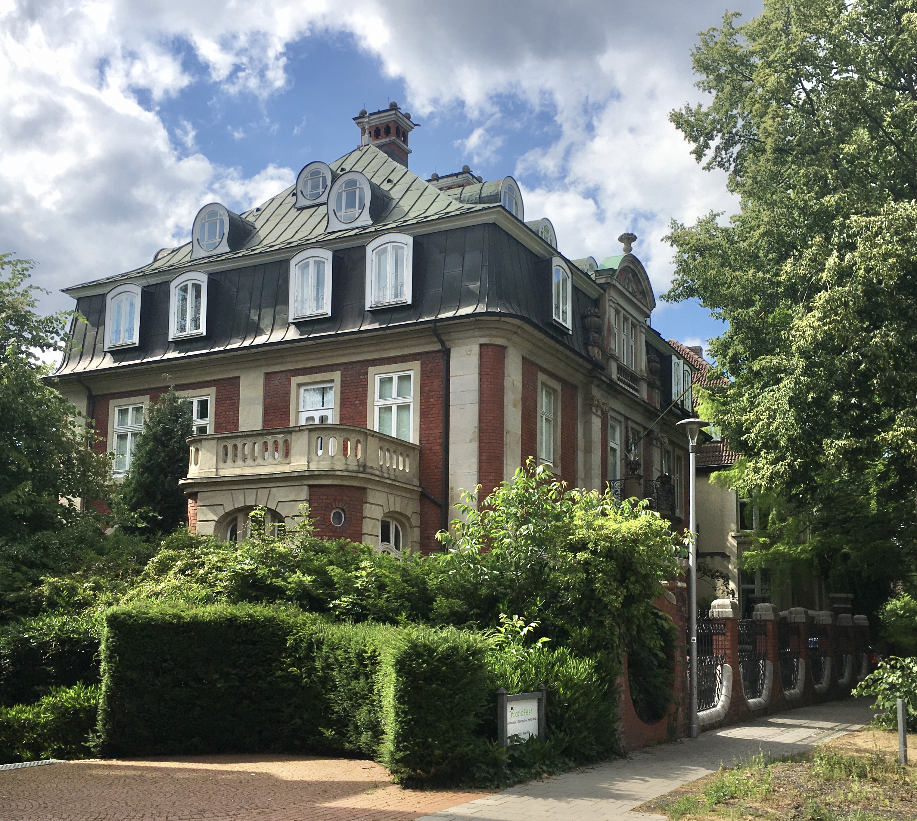 Southern view of the Villa Sunder-Plaßmann in Münster, Germany